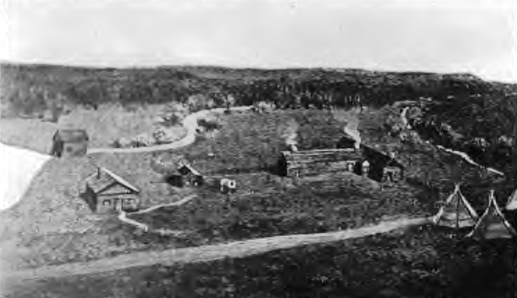 Whitman Mission in Oregon Country, site of the Whitman Massacre